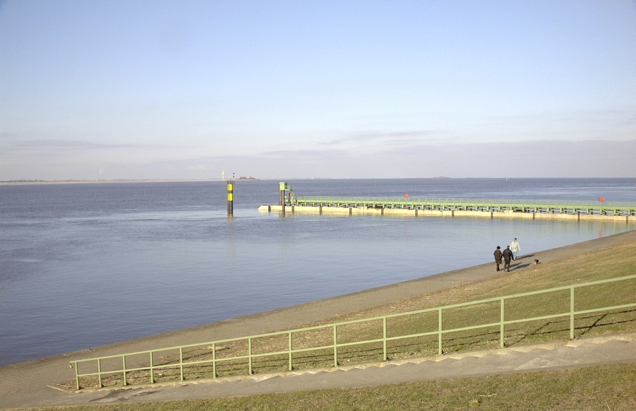 Estuary mouth Weser near Bremerhaven, Germany